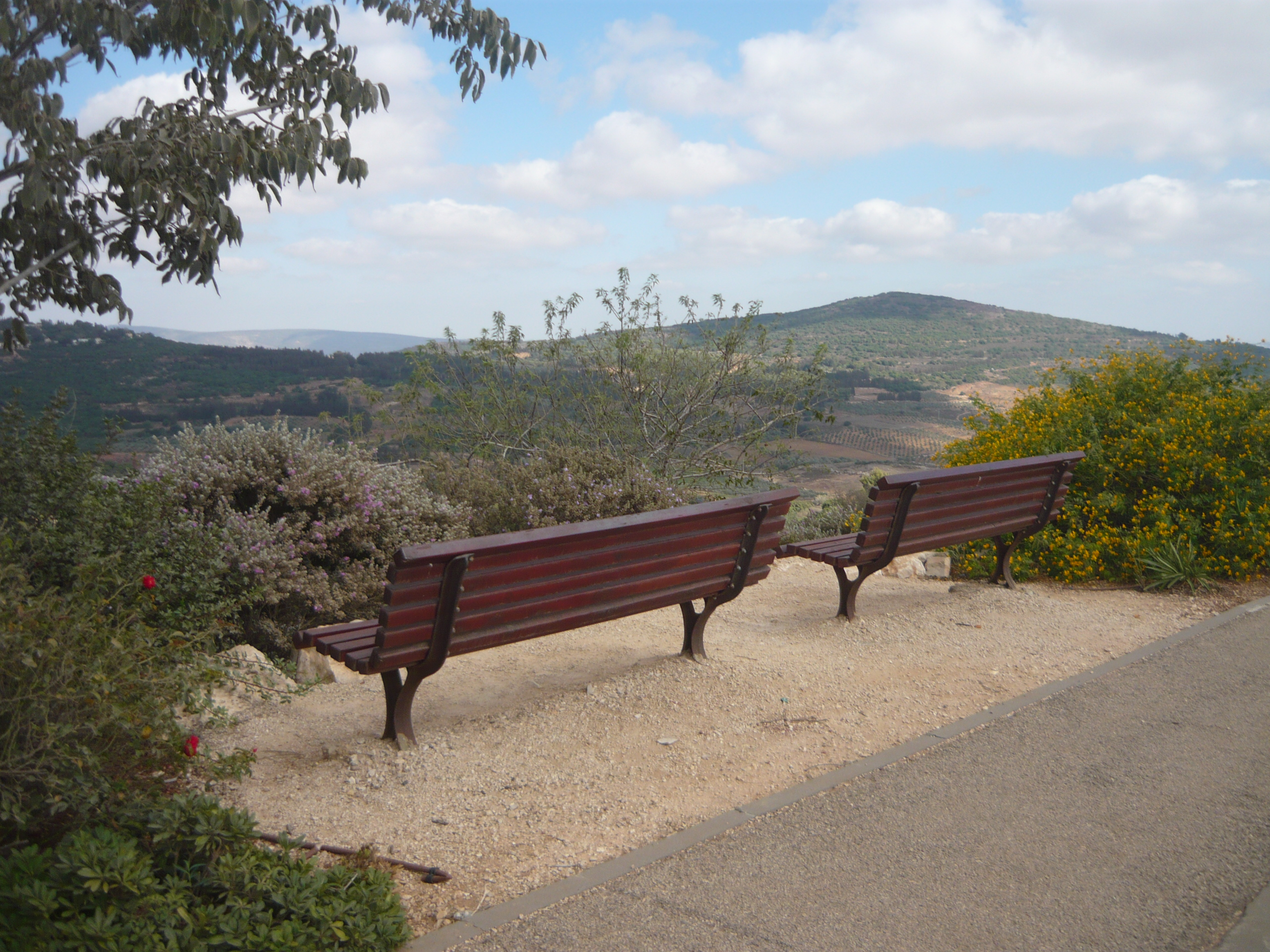 bench in koranit ספסל בפינת מנוחה הפונה אל נוף משגב בקורנית